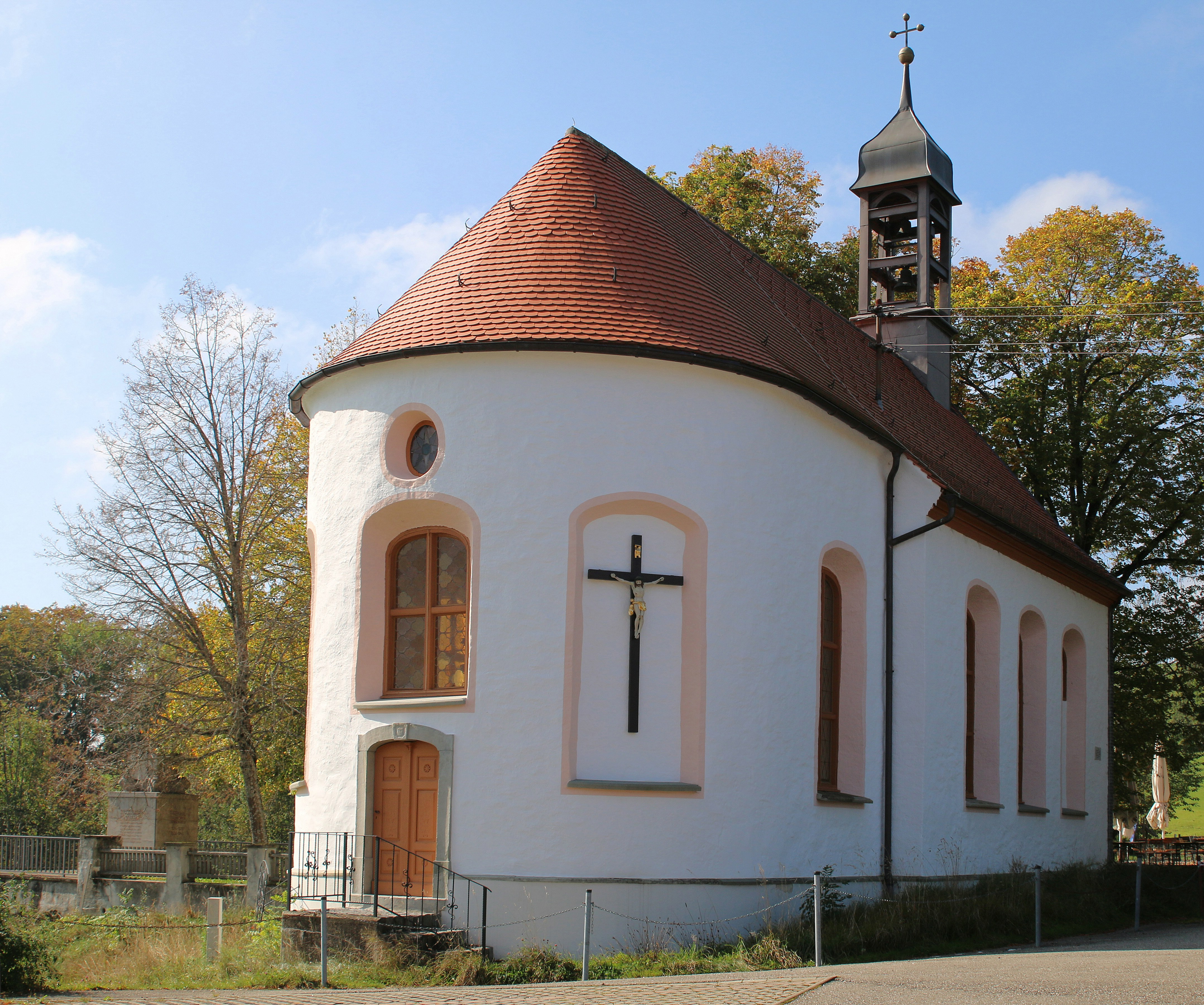 Chapel Mariä Heimsuchung (Maria's Visitation) on the hill Mariaberg in Kempten (Allgäu) Germany, built 1768